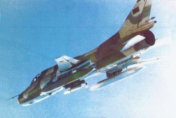 US Navy: An air to air right side view of a Soviet Su-22M-3K Fitter aircraft.